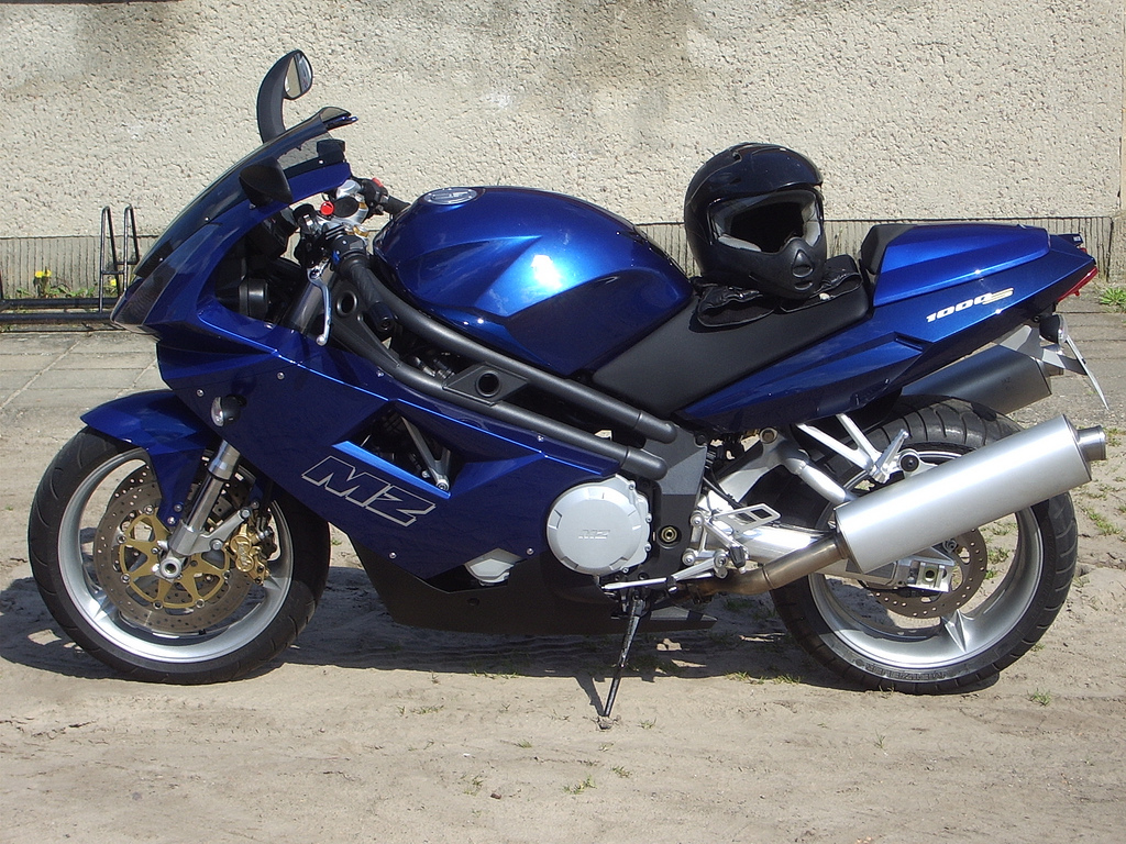 MZ 1000 SF